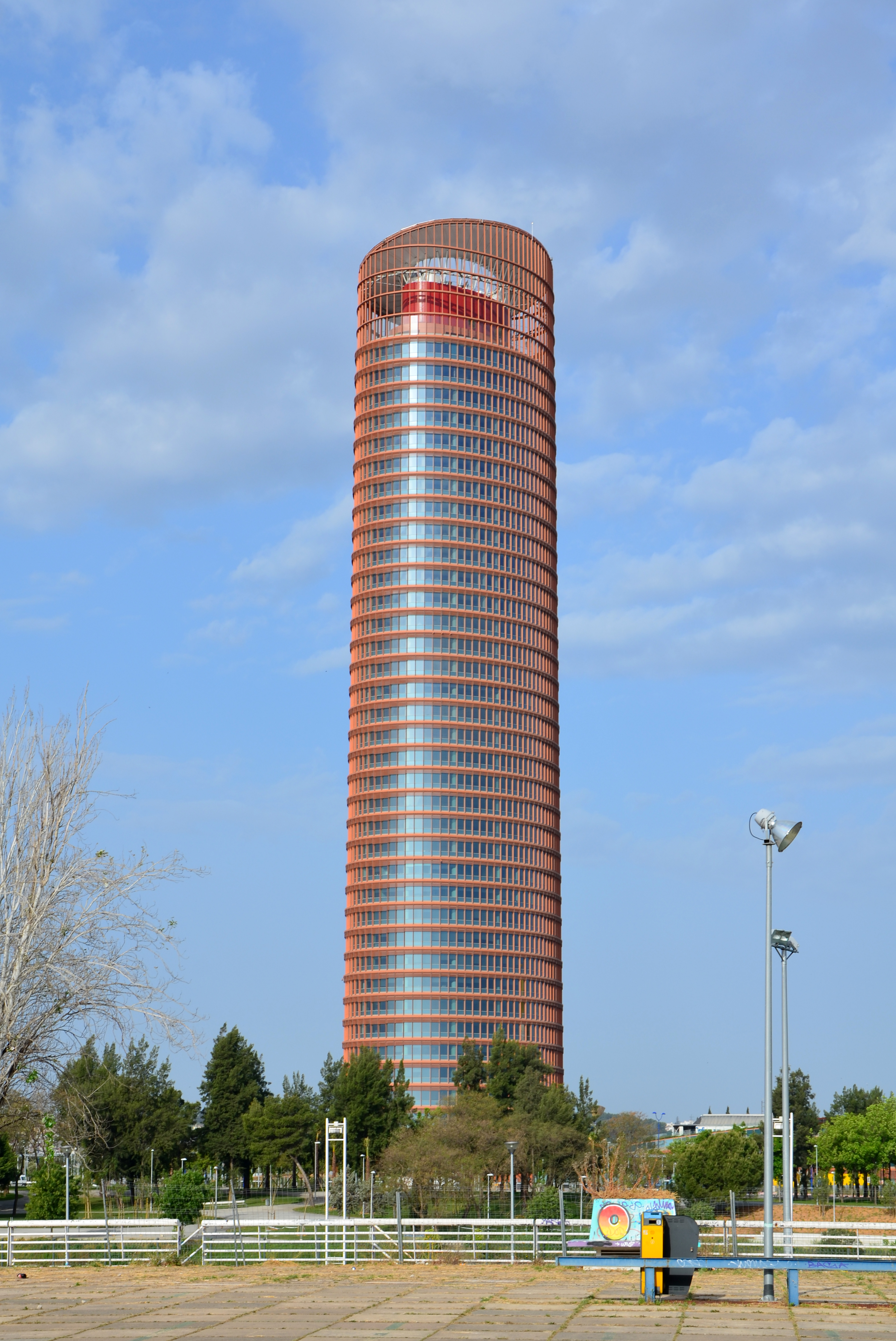 The Sevilla Tower, designed by César Pelli (Seville, Spain).